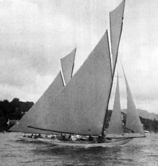 Hera and Mouchette during the 1908 Olympics